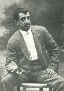 El actor Luis Manrique en una escena de la obra de teatro Sábado sin sol, de los Hermanos Álvarez Quintero